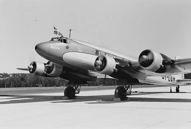 The Danish Airlines' Focke-Wulf Fw 200 airliner OY-DAM Dania at the opening of the Norwegian airport Fornebu near Oslo.